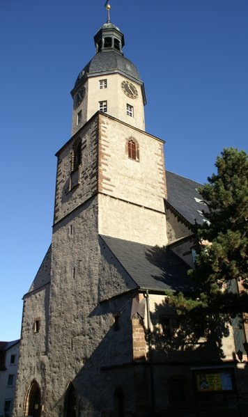 Main church of Schmölln in Thuringia, Germany.